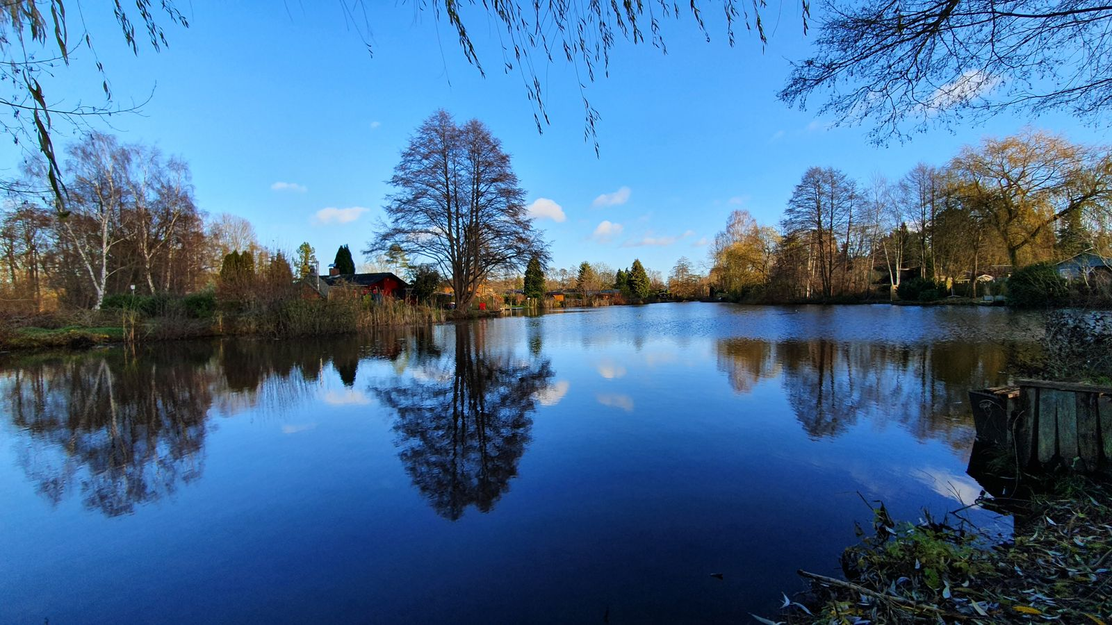 Königsmoor Wümmepark